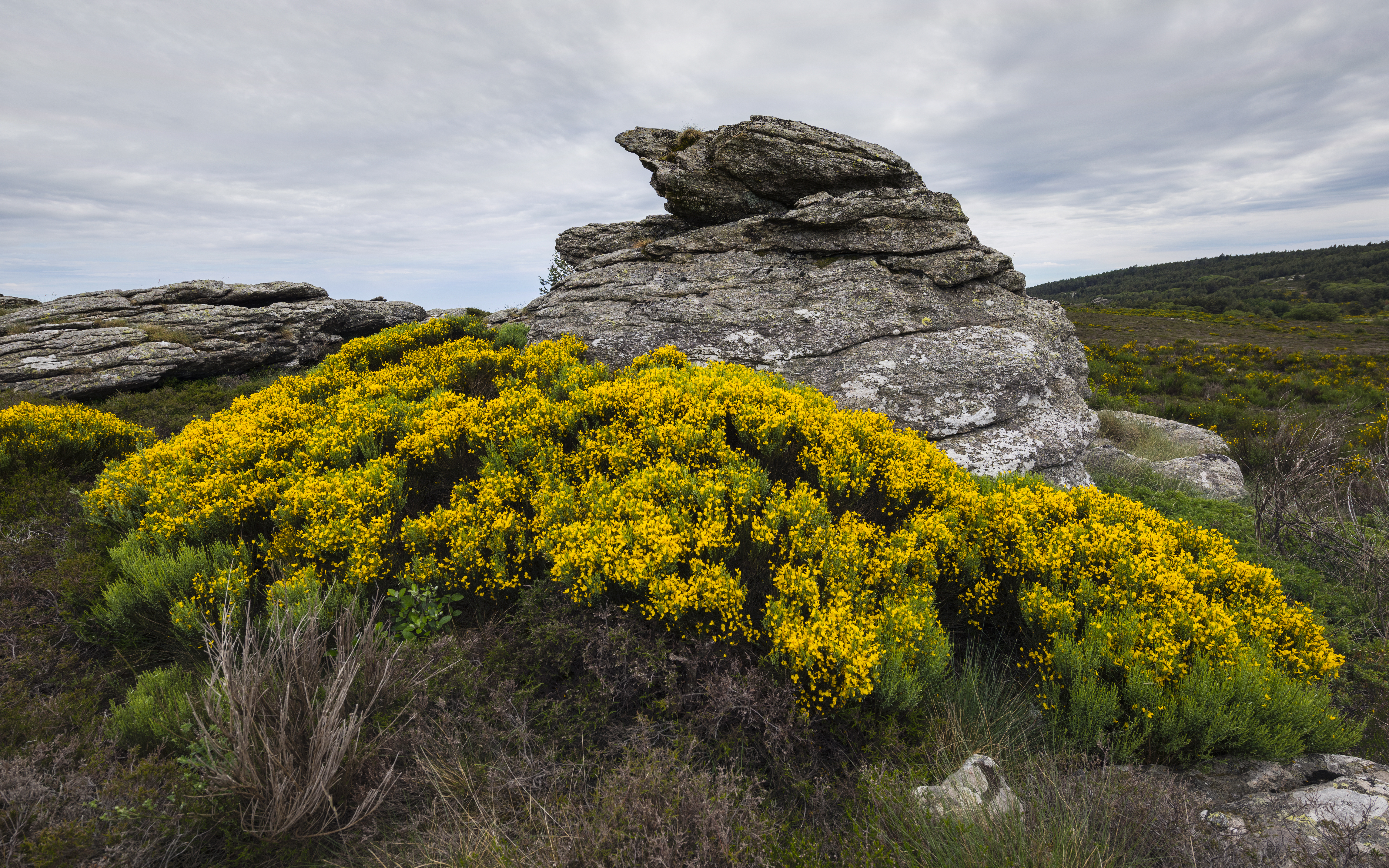 Rock and Cytisus scoparius (Common broom) flowers in the Haut-Languedoc Regional Nature Park. Rosis, Hérault, France